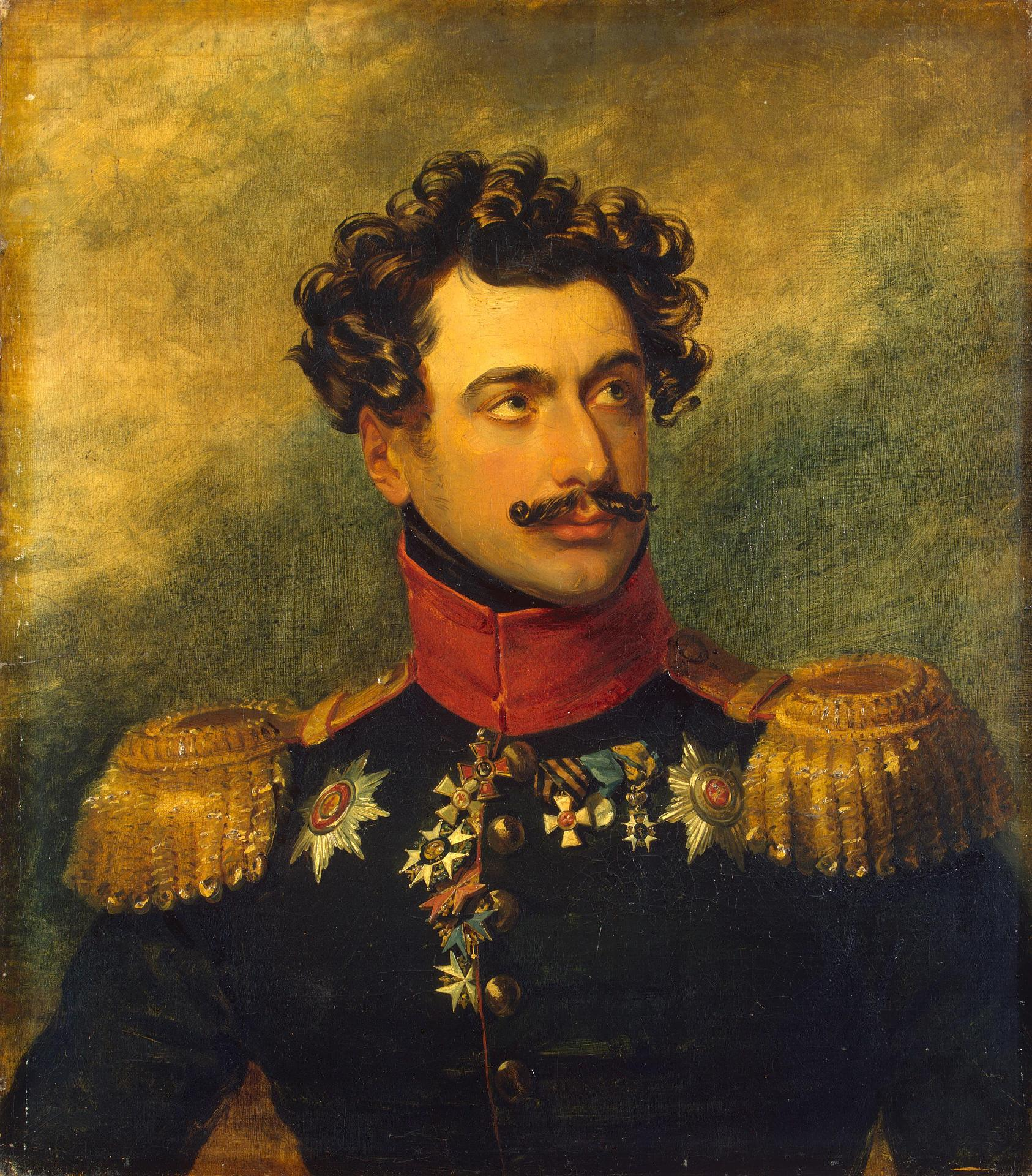 Lev Alexandrovich Naryshkin (05.02.1785 – 17.11.1846) russian general